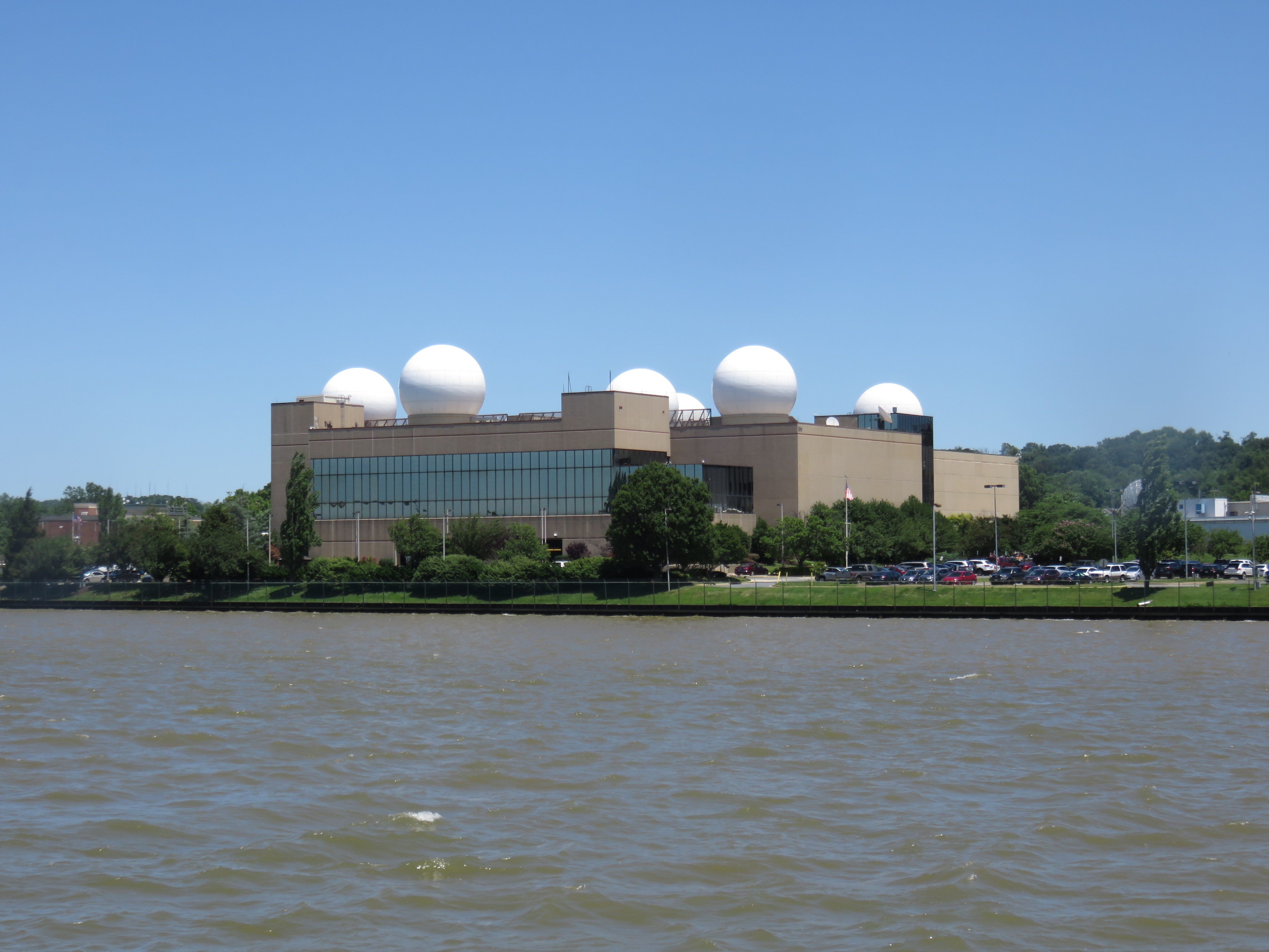 U.S. Naval Research Laboratory viewed from the Potomac water taxi in 2019